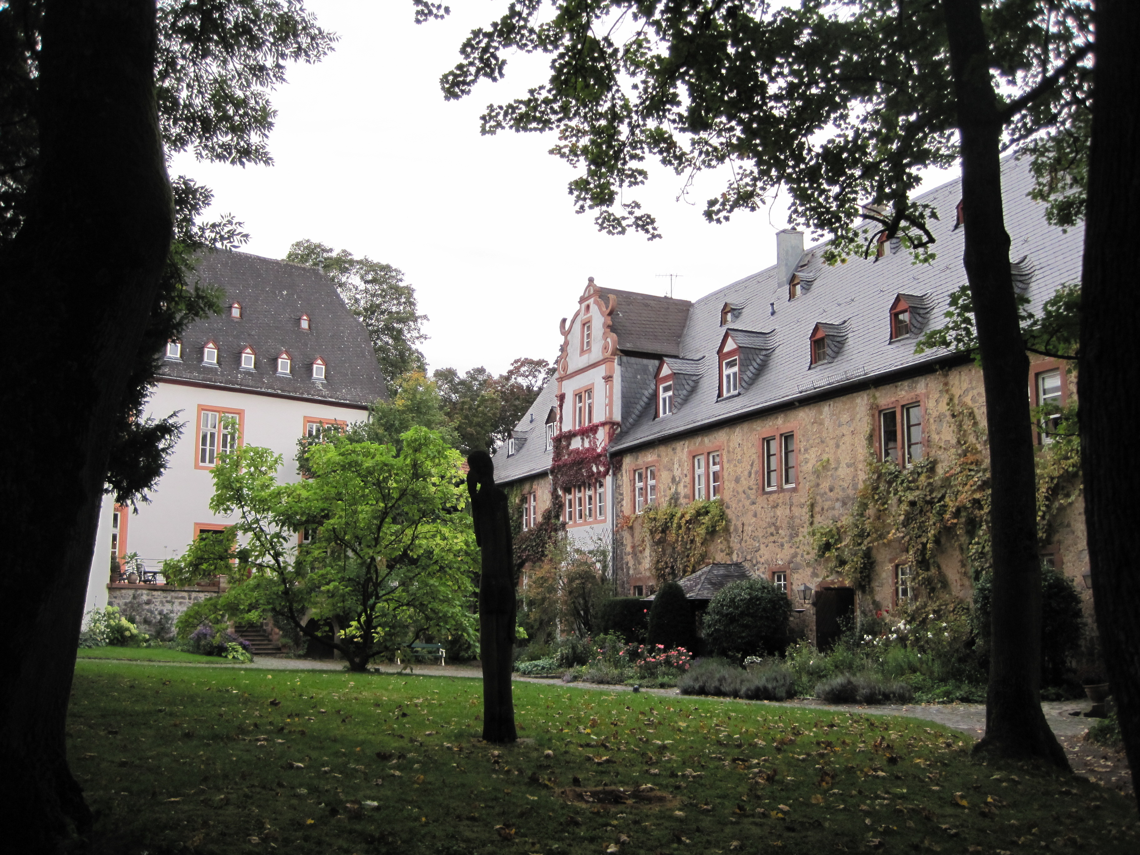 Castle, Hungen, Germany check usage